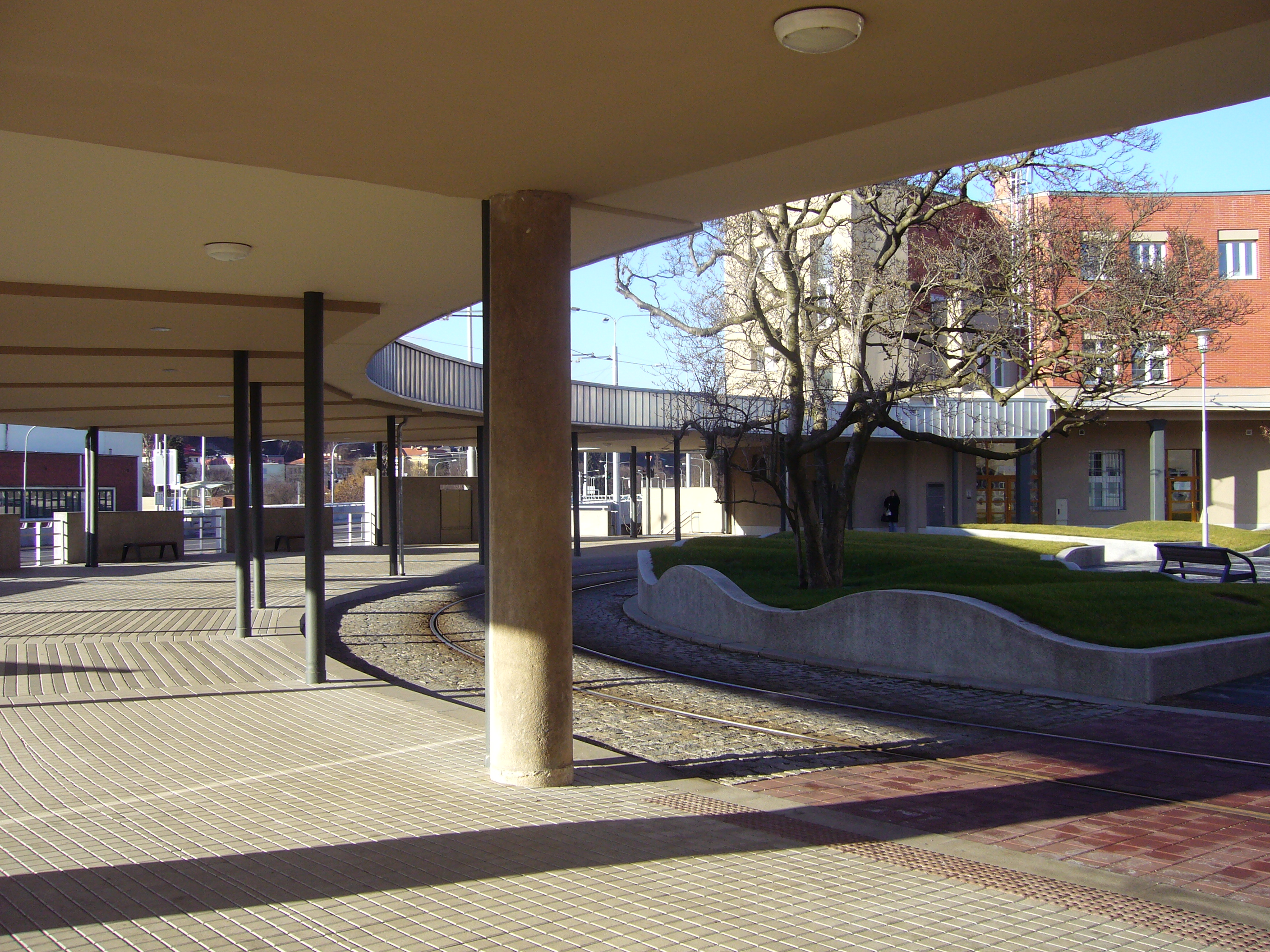 Former terminal of tram No.1 in Pisárky